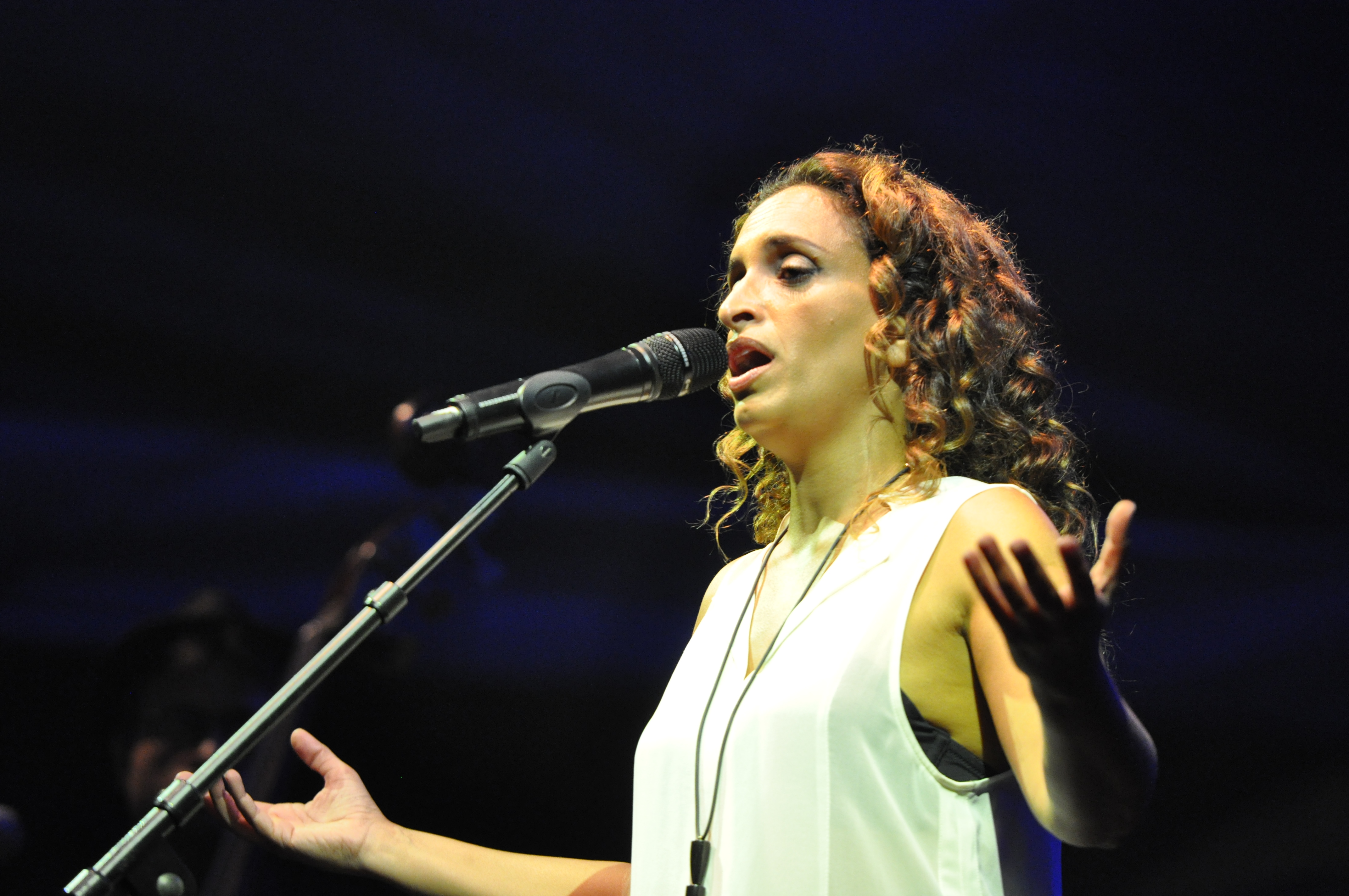 Noa (Achinoam Nini) (Israel), appearance at the 39th music festival "Bardentreffen" 2014 in Nuremberg, Germany, Hauptmarkt stage